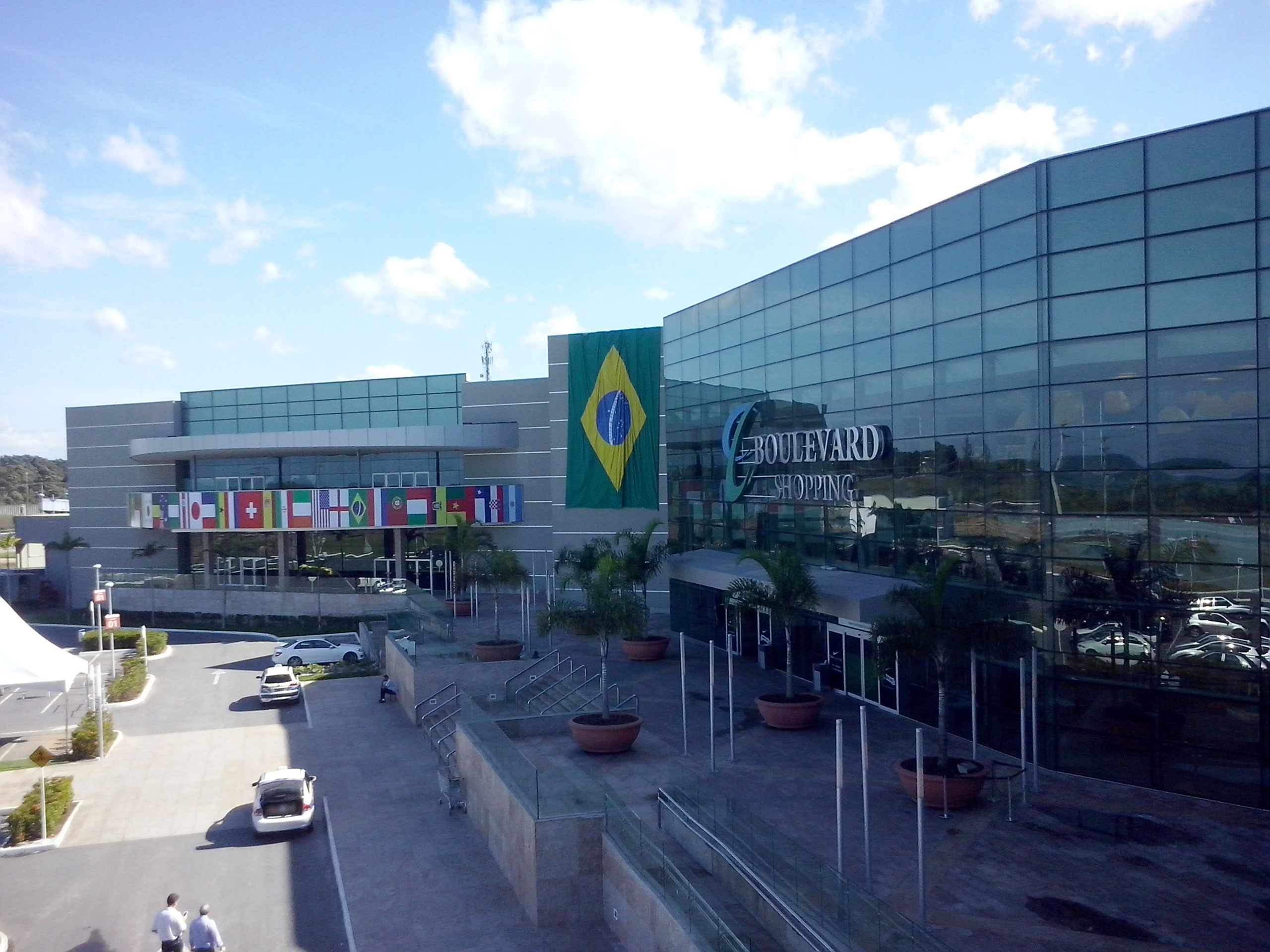 View of the Boulevard Shopping Vila Velha, Espírito Santo, Brazil.